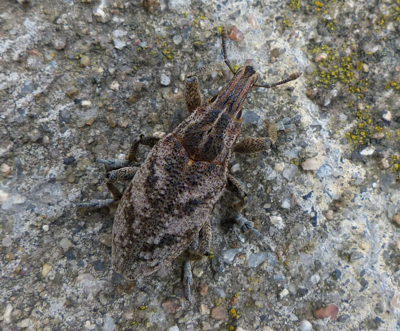 Sluggish weevil (Cleonis pigra), March 2020, Mikulov, South Moravia, Czech republic